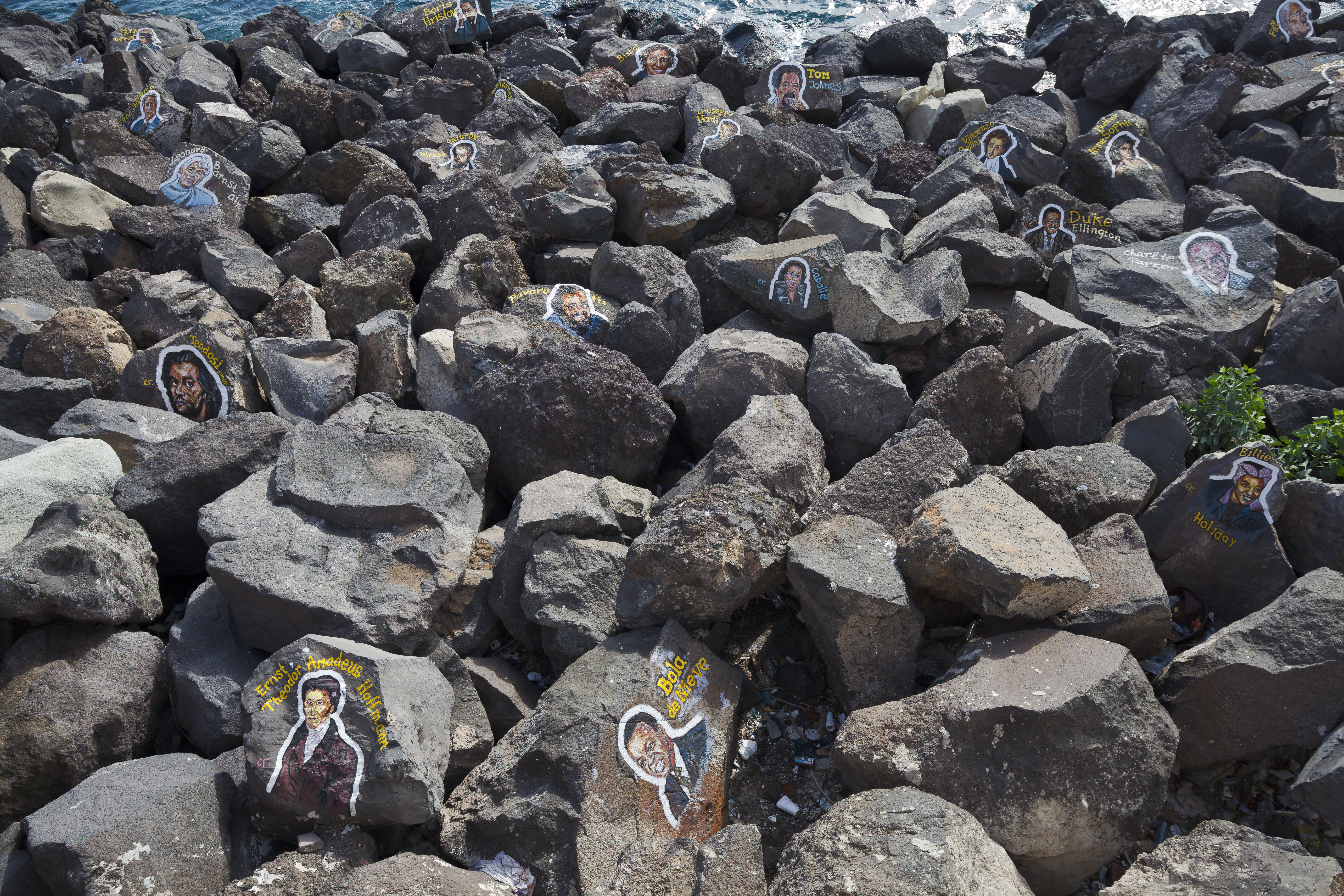 100 Faces of the Tenerife Auditorium, Santa Cruz de Tenerife, Spain